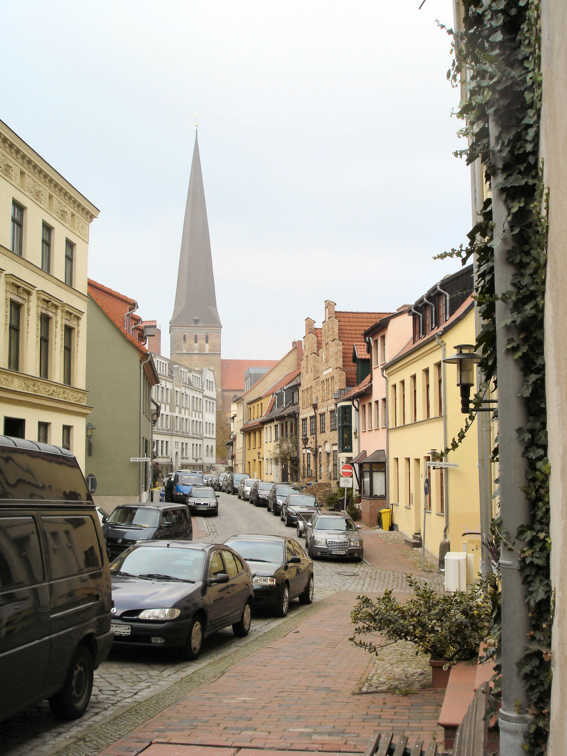 Street in the historic city of Rostock